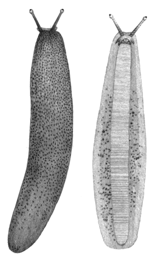 Drawing of dorsal and ventral view of Diplosolenodes occidentalis from its original type description.